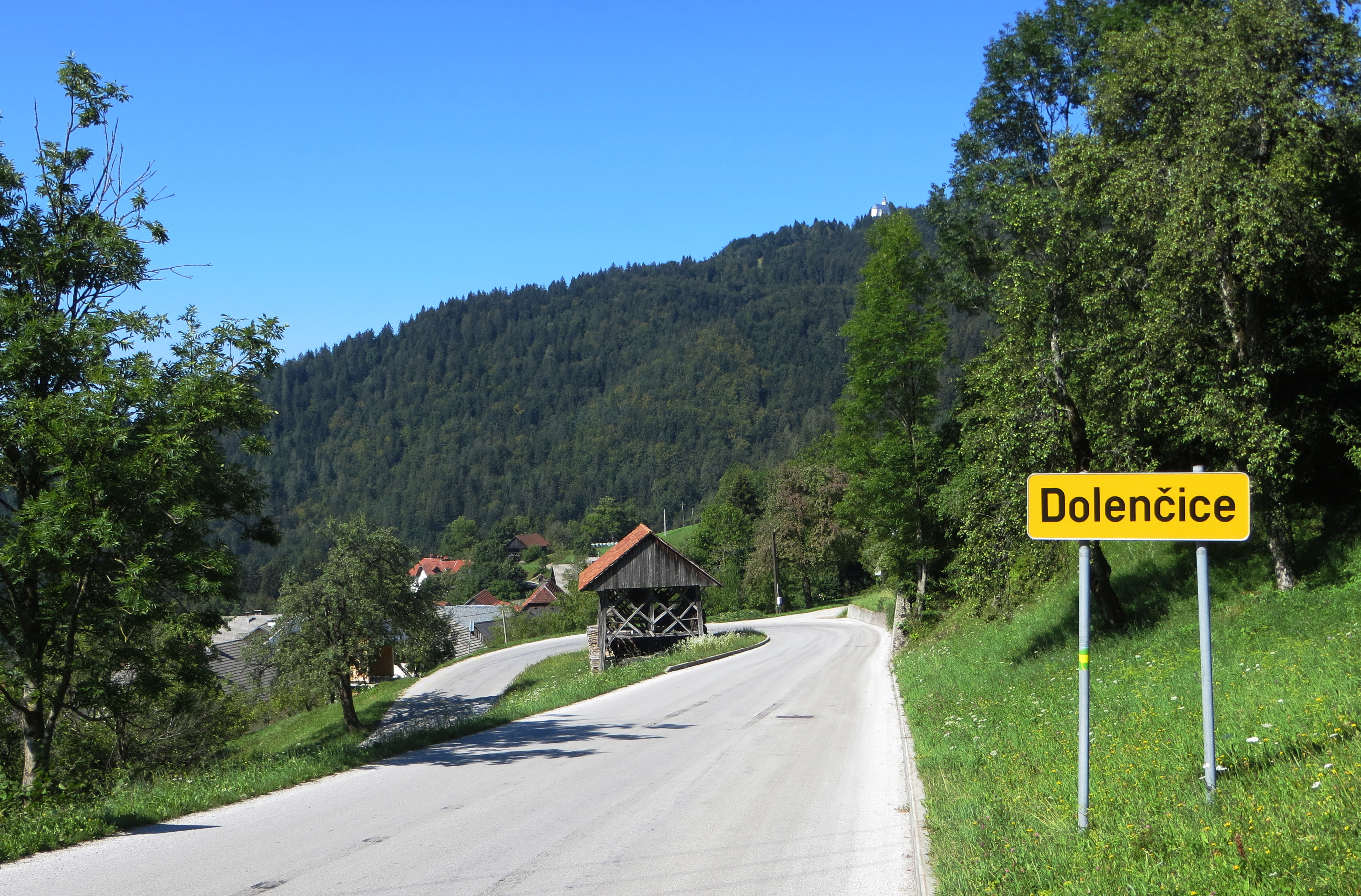 Dolenčice, Municipality of Gorenja Vas–Poljane, Slovenia